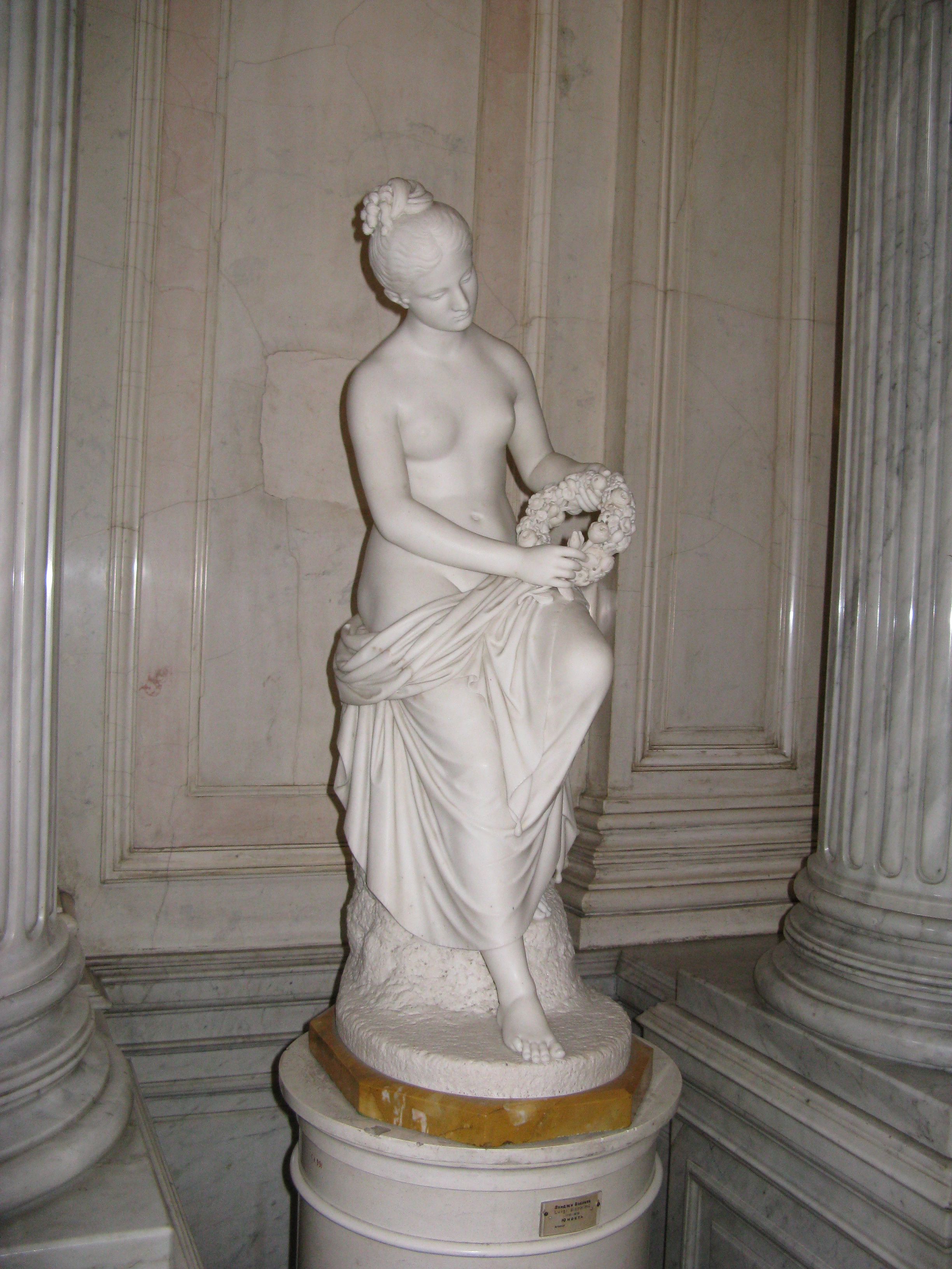 Creator: Luigi Bienaimé, 1852 Title: Shepherdess Marble. Height 95 cm, Yusupov Collection. Location: Hermitage, St. Petersburg.